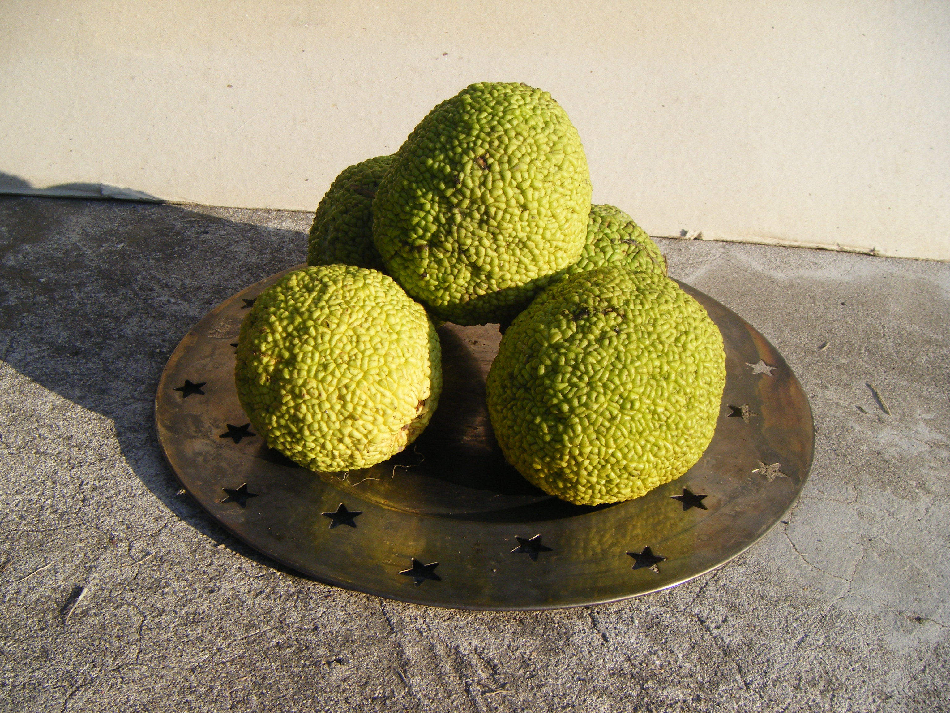 A dish containing some fruits of maclura